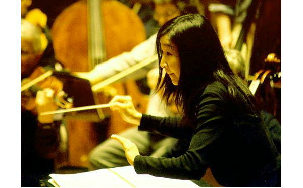 Yukari Ishimoto with OBM, by Berliner Philharmonie Best